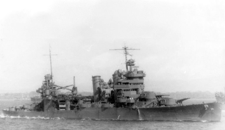 The U.S. Navy New Orleans-class heavy cruiser USS Astoria (CA-34) off Guadalcanal on 8 August 1942.